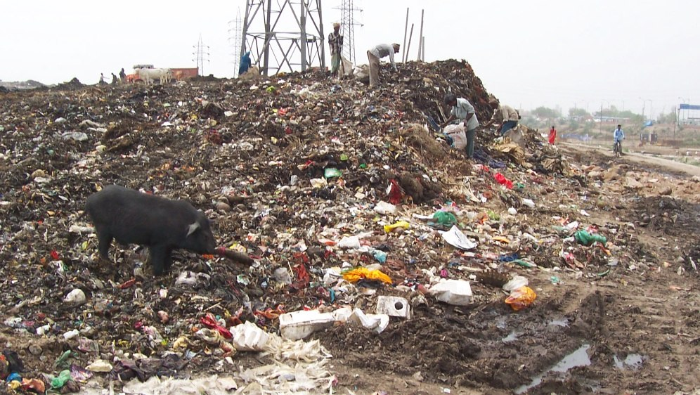 Bhalswa Wastedump, New Delhi